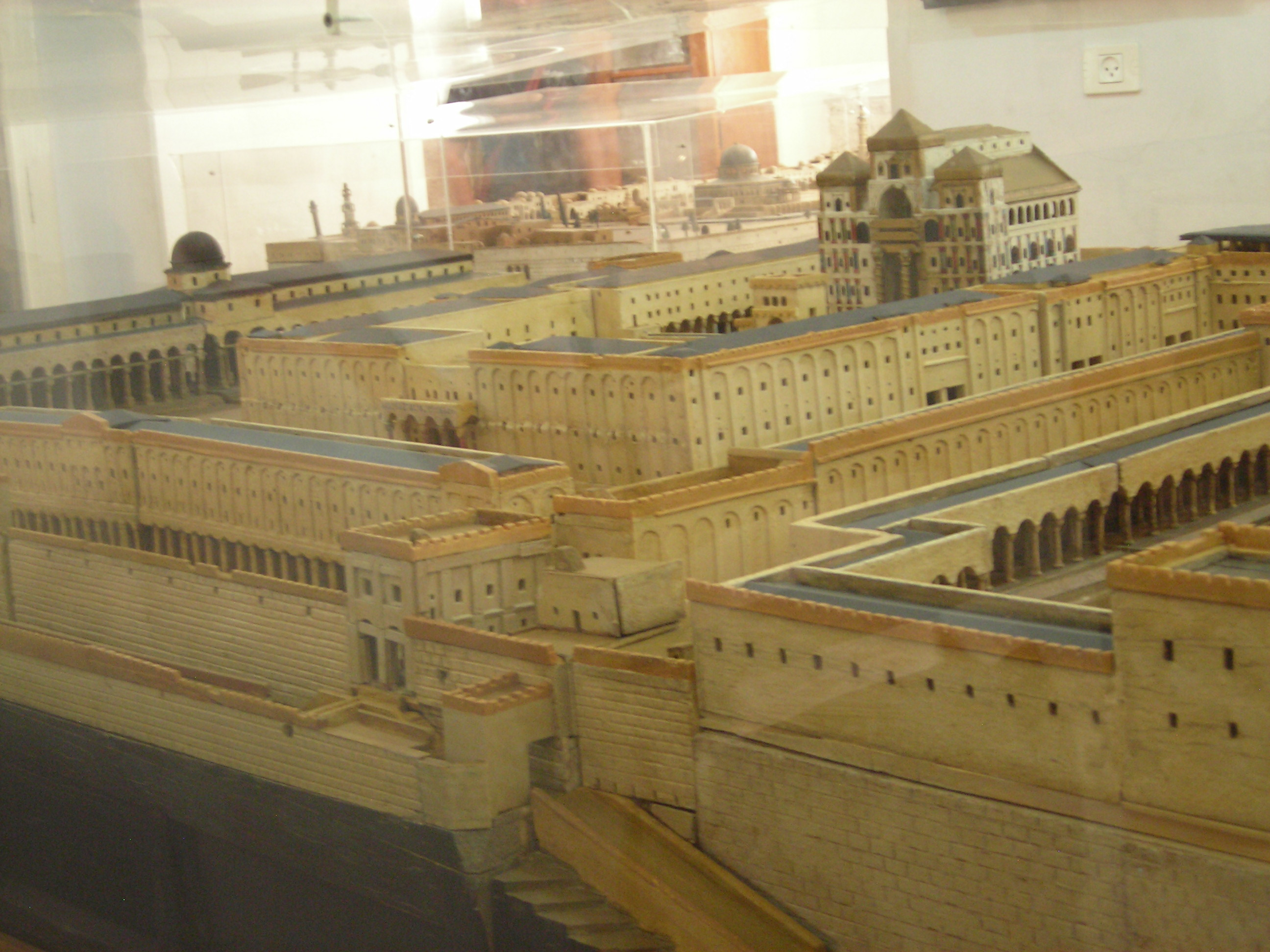 A model of the Jewish temple created by Conrad Schick in the 1870s. In the background is another model depicting temple mount as it looked at that time. Located in the basement of the Paulus-Haus hospice, across from Nablus gate, outside the old city of Jerusalem.